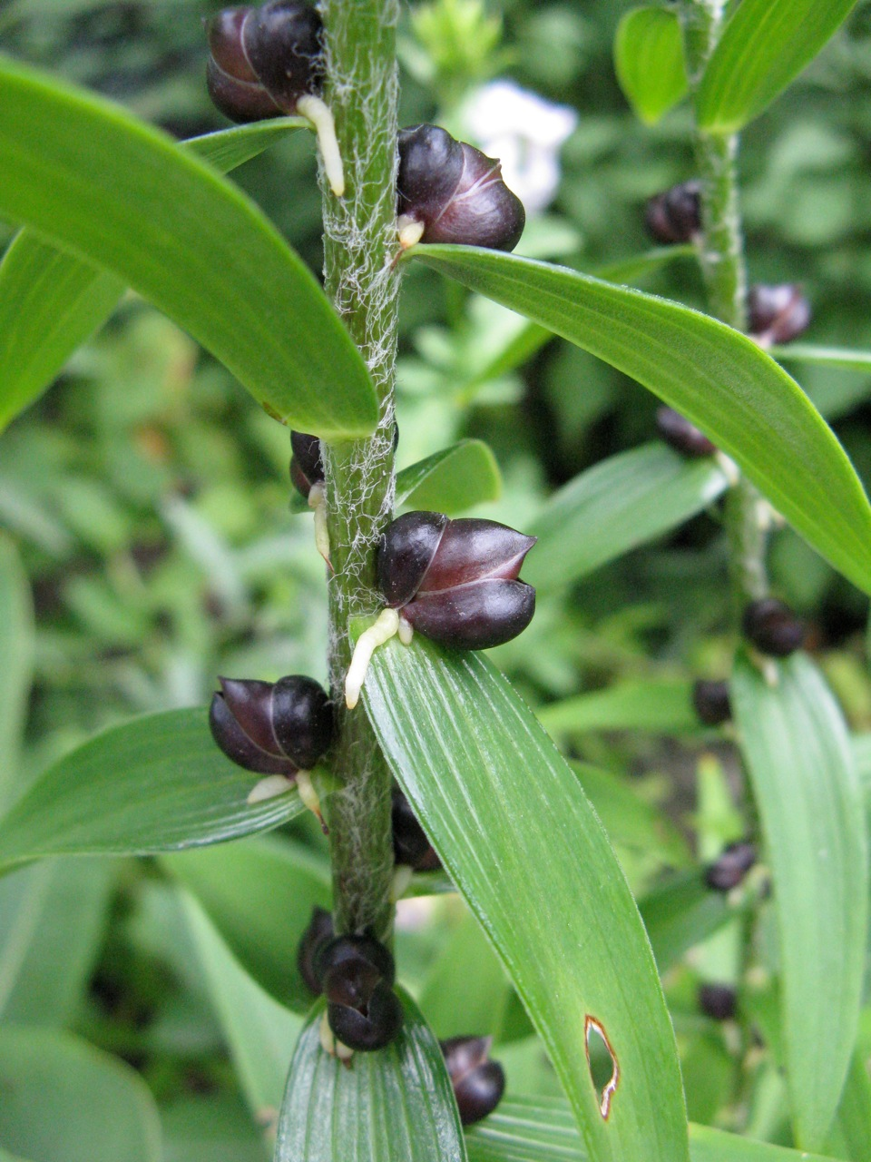 Lilium lancifolium bulbils with roots